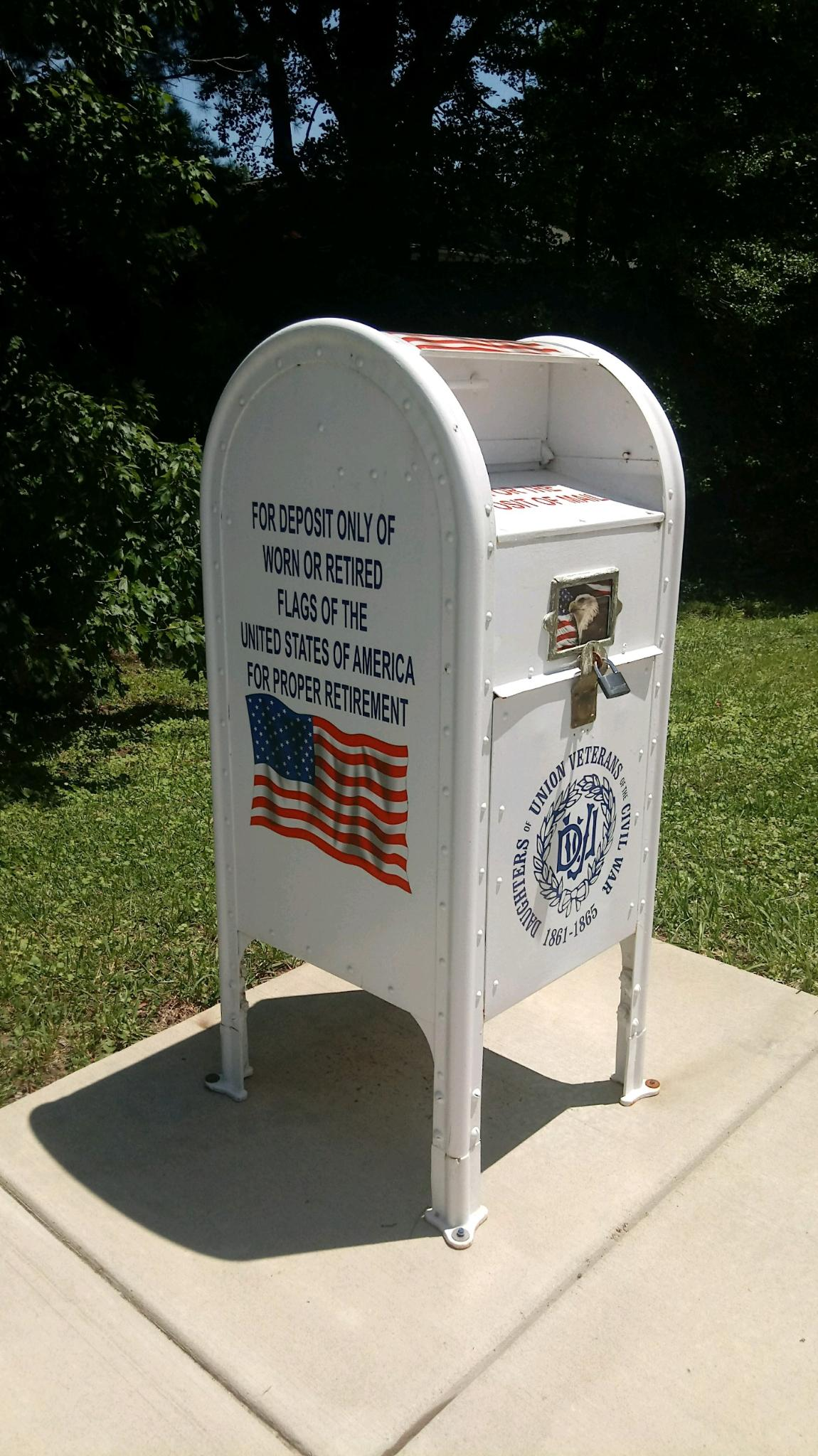 Flag disposal box at Grant's Farm in St. Louis, Missouri